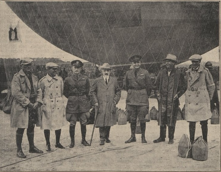 American team in Gordon Bennett Cup in ballooning 1926. Antwerp.. From the left are: Boettner, Maxson, Johnson, Sydney Veit, Gray, Walter T. Morton, Ward Tunte van Orman.